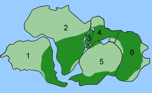 Distribution of modern day Glossopteris fossils (dark green) on the continents in their positions as parts of Pangaea. Legend: 1 South America 2 Africa 3 Madagascar 4 Indian subcontinent 5 Antarctica 6 Australia